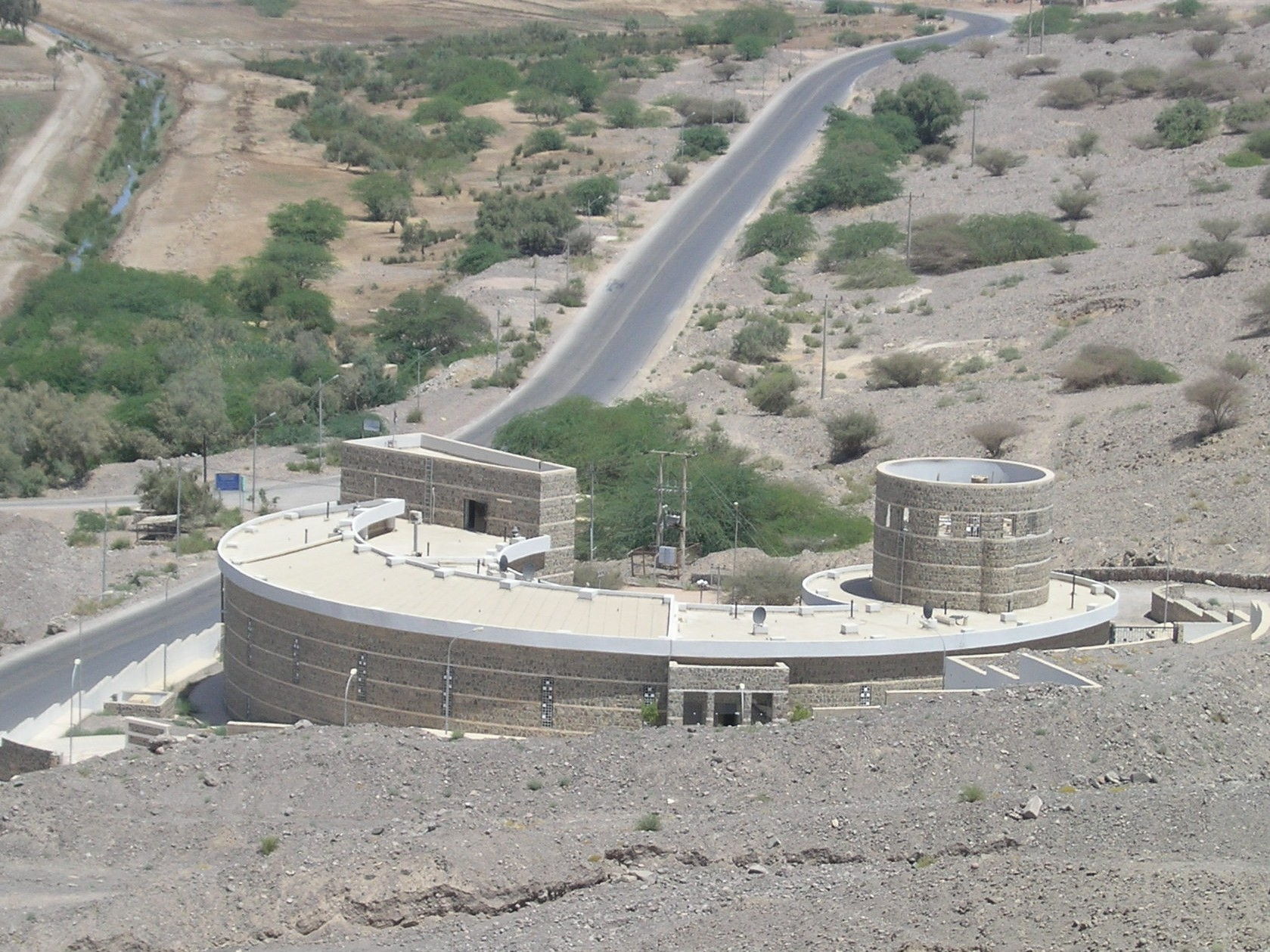 Museum at the Lowest Place on Earth (MuLPE), view from the Sanctuary of Agios Lot